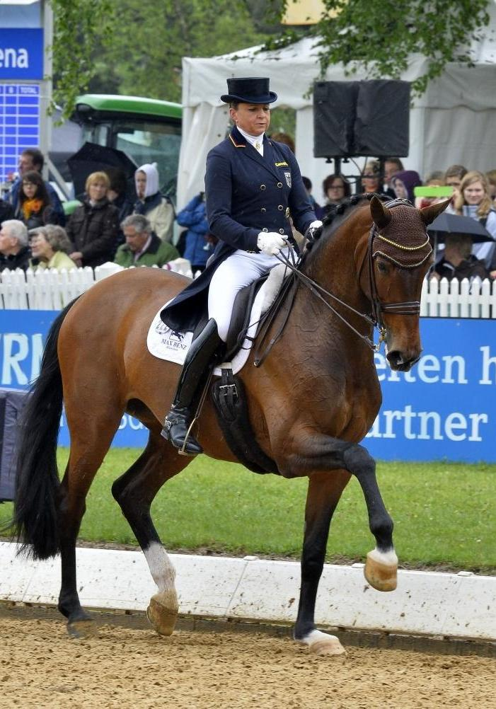 Dorothee Schneider riding Forward Looking, Grand Prix Spécial at the CDI 5* München-Riem 2013